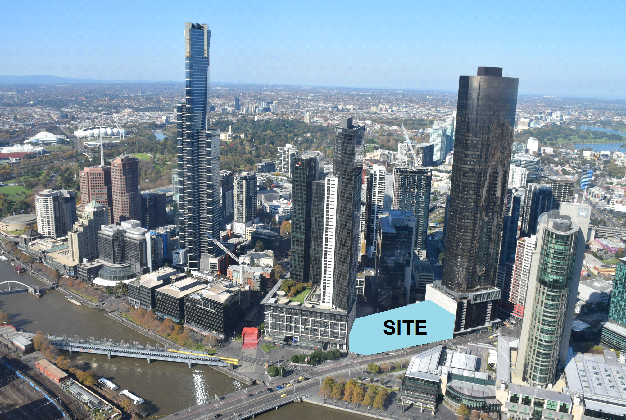 The site of One Queensbridge, an approved development in Melbourne, Australia. This image has been cropped, and edited as to indicate where OQ development will be.